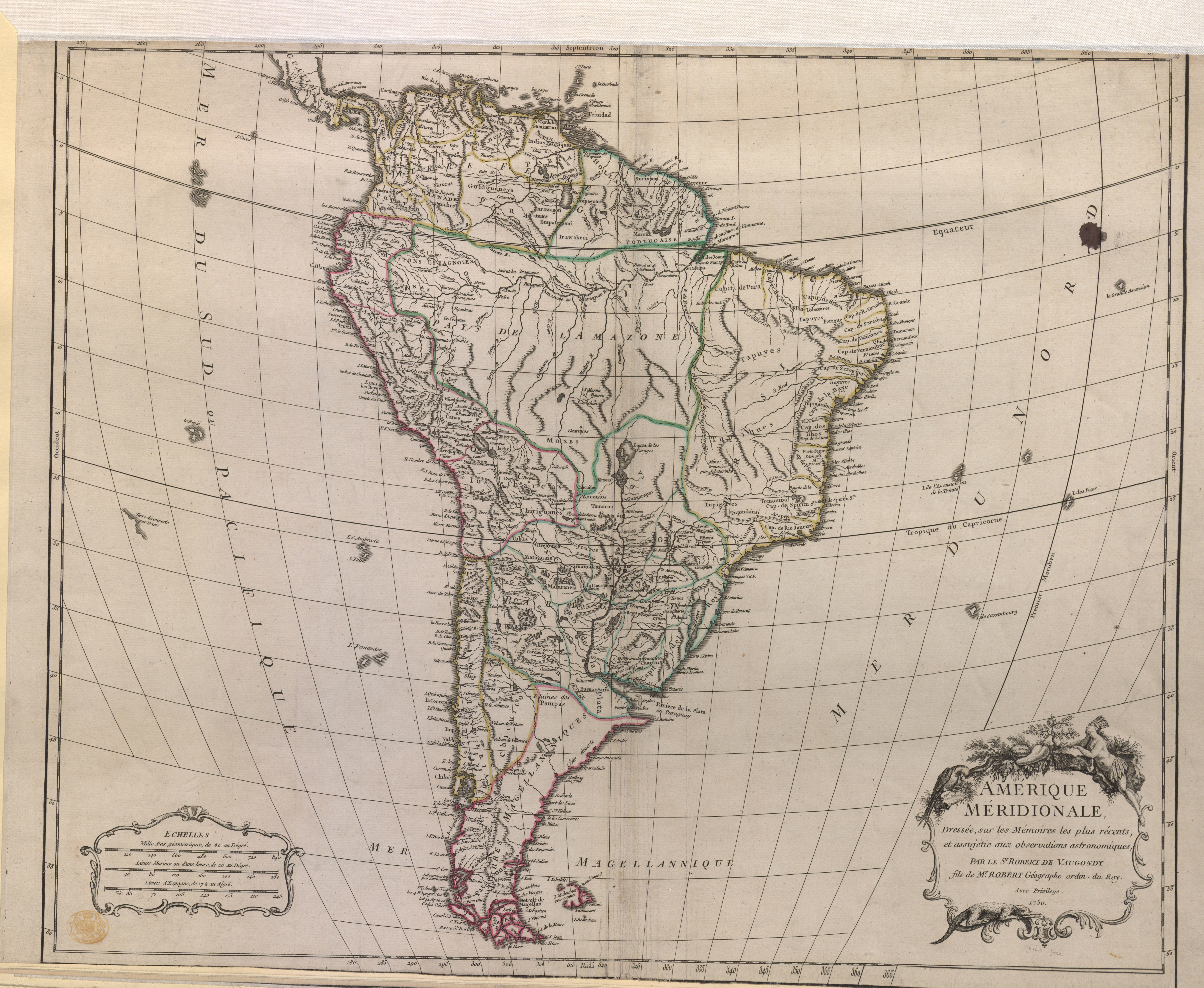 State 1: with an unfinished? title cartouche, signed: "gobin fecit" (M.S. Pedley). Appeared in: Gilles and Didier Robert de Vaugondy, "Atlas Universel", 1753-1757 [or later] (Pedley, Short titles of maps in the Atlas Universel, in: Bel et utile, number 101, page 229). Includes a cartouche engraving note: "gobin fecit". Includes cities, rivers and mountain ranges. Includes decorative title and scale vignettes.